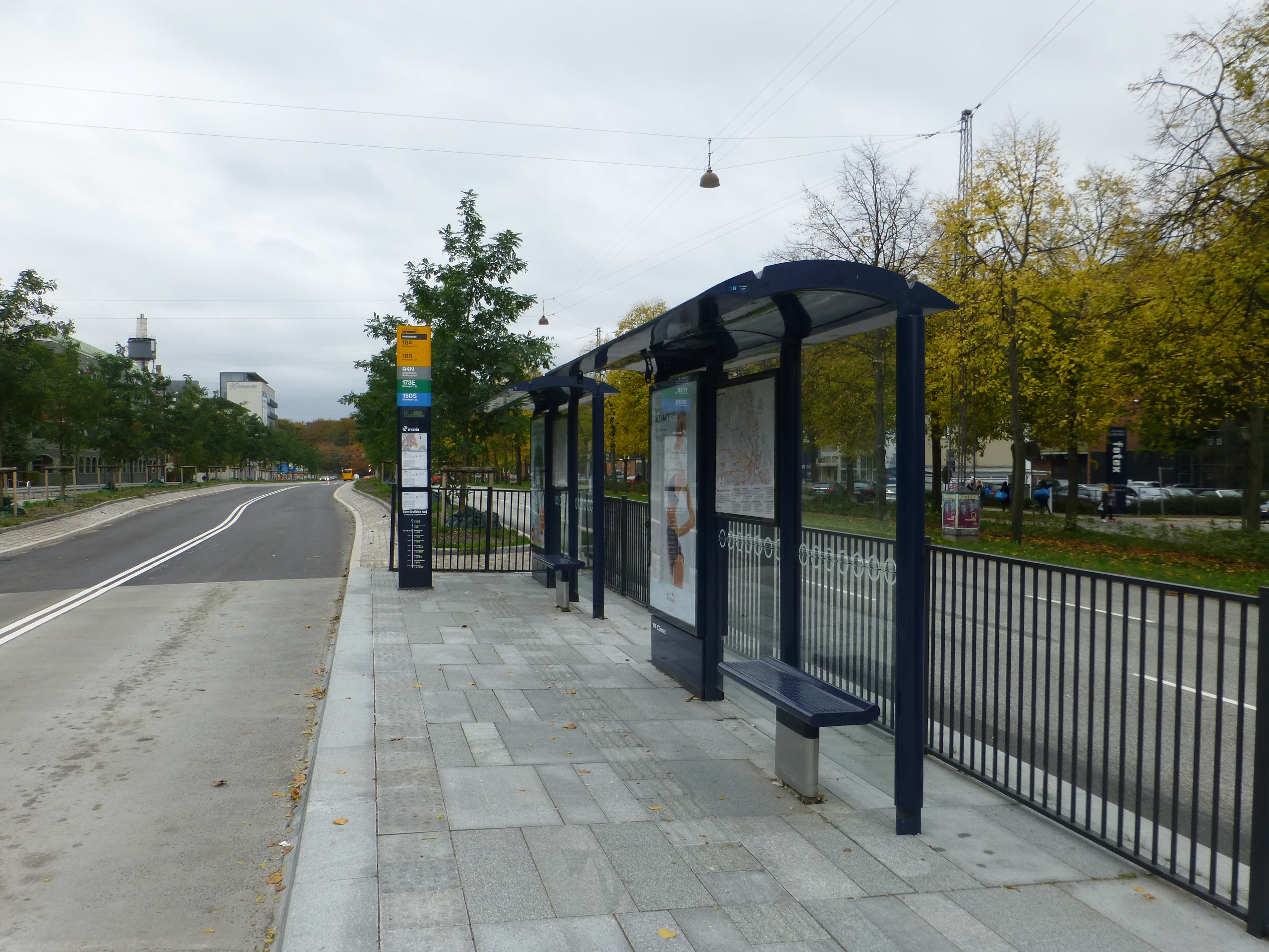 Den kvikke vej (the quick way), a bus rapid transit between Fredensbro and Lyngbyvej in Østerbro in Copenhagen. Bus stop on Lyngbyvej at Haraldsgade.